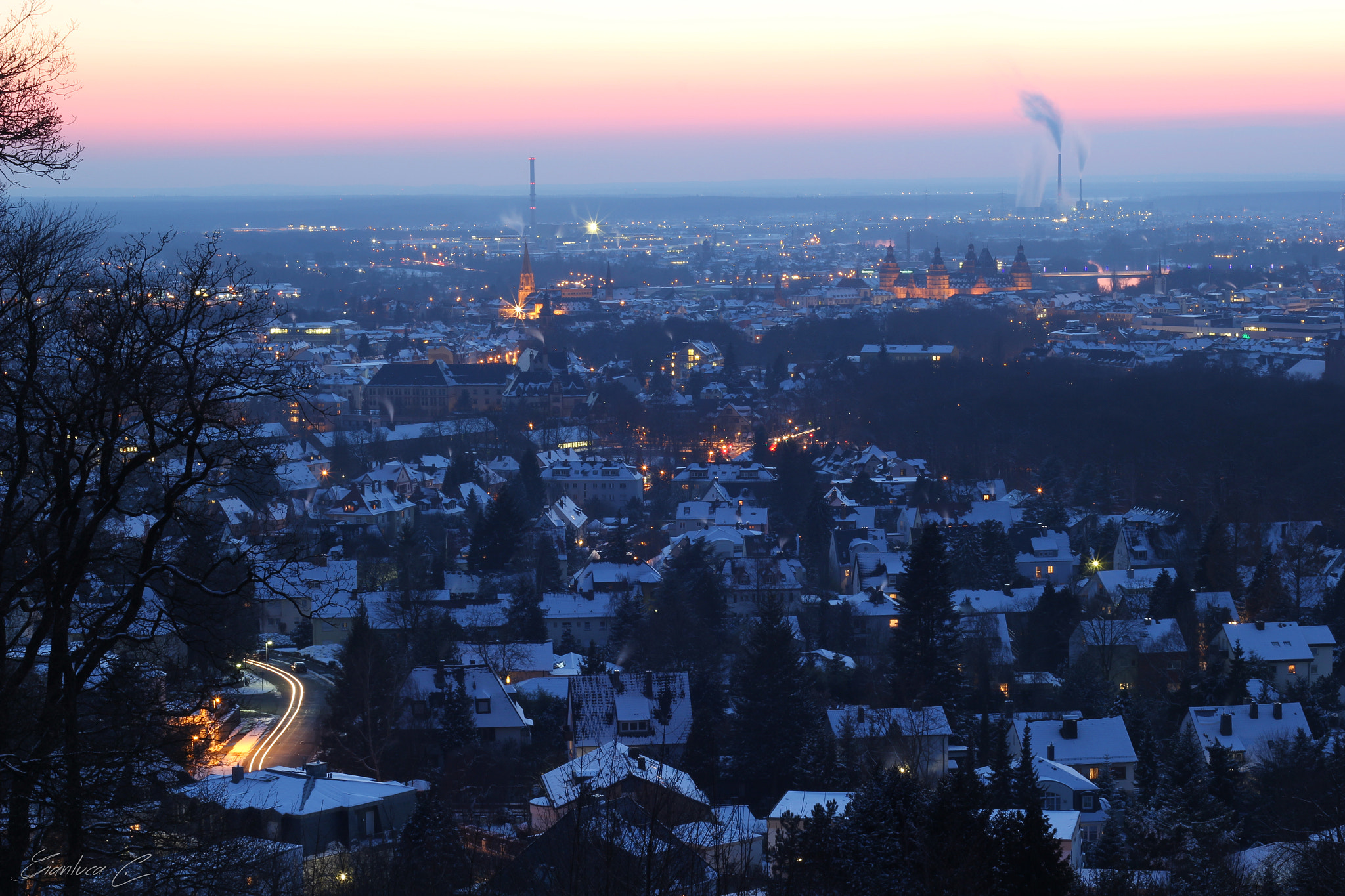 500px provided description: Winter Night [#night ,#Winter ,#Germany ,#Aschaffenburg]